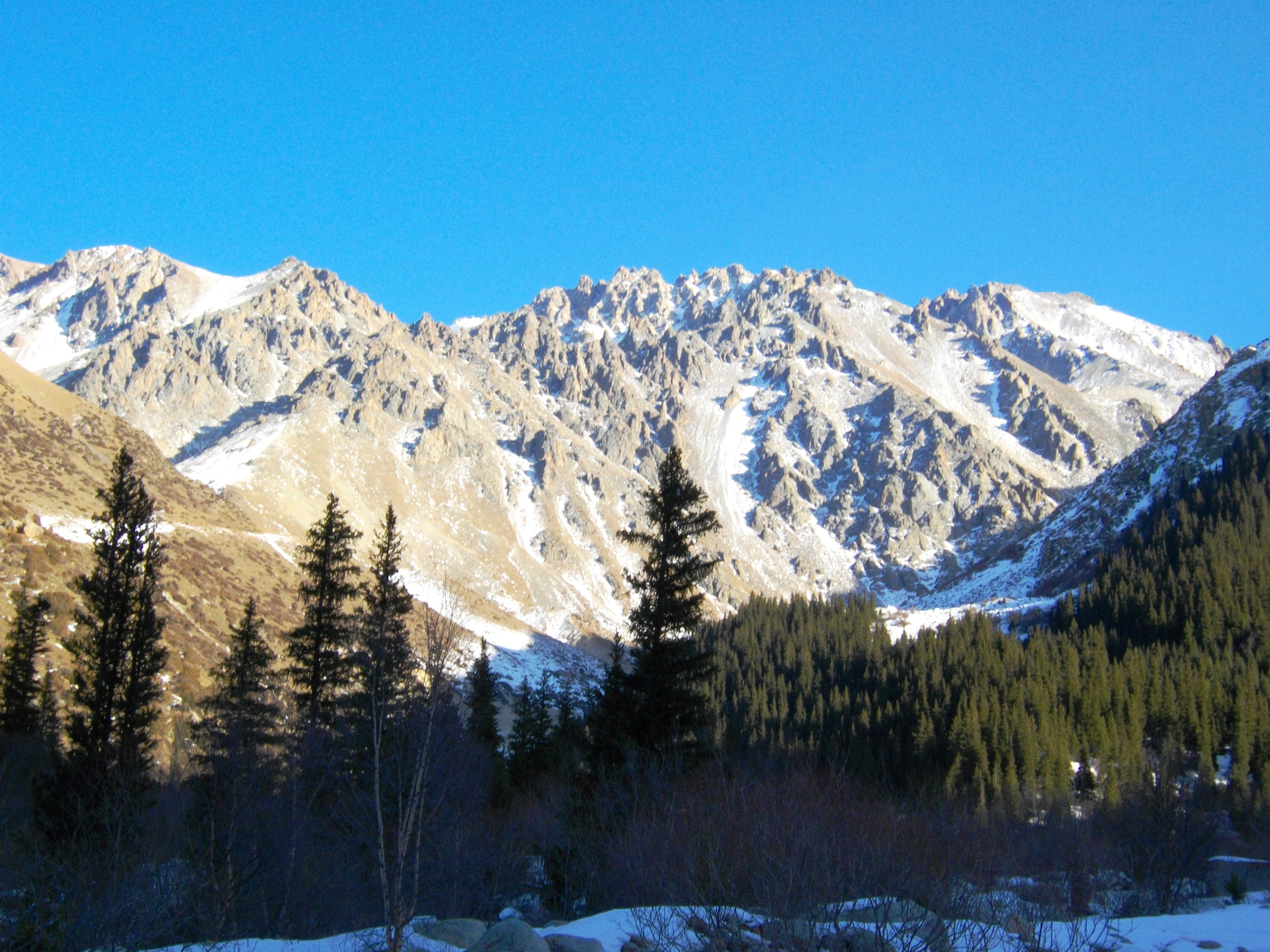 At Ala Archa National Park, Kyrgyz.